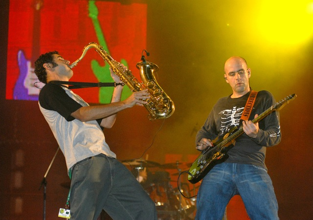 Brazilian pop rock band Biquini Cavadão (live at Salvador/BA - 02/04/2006)